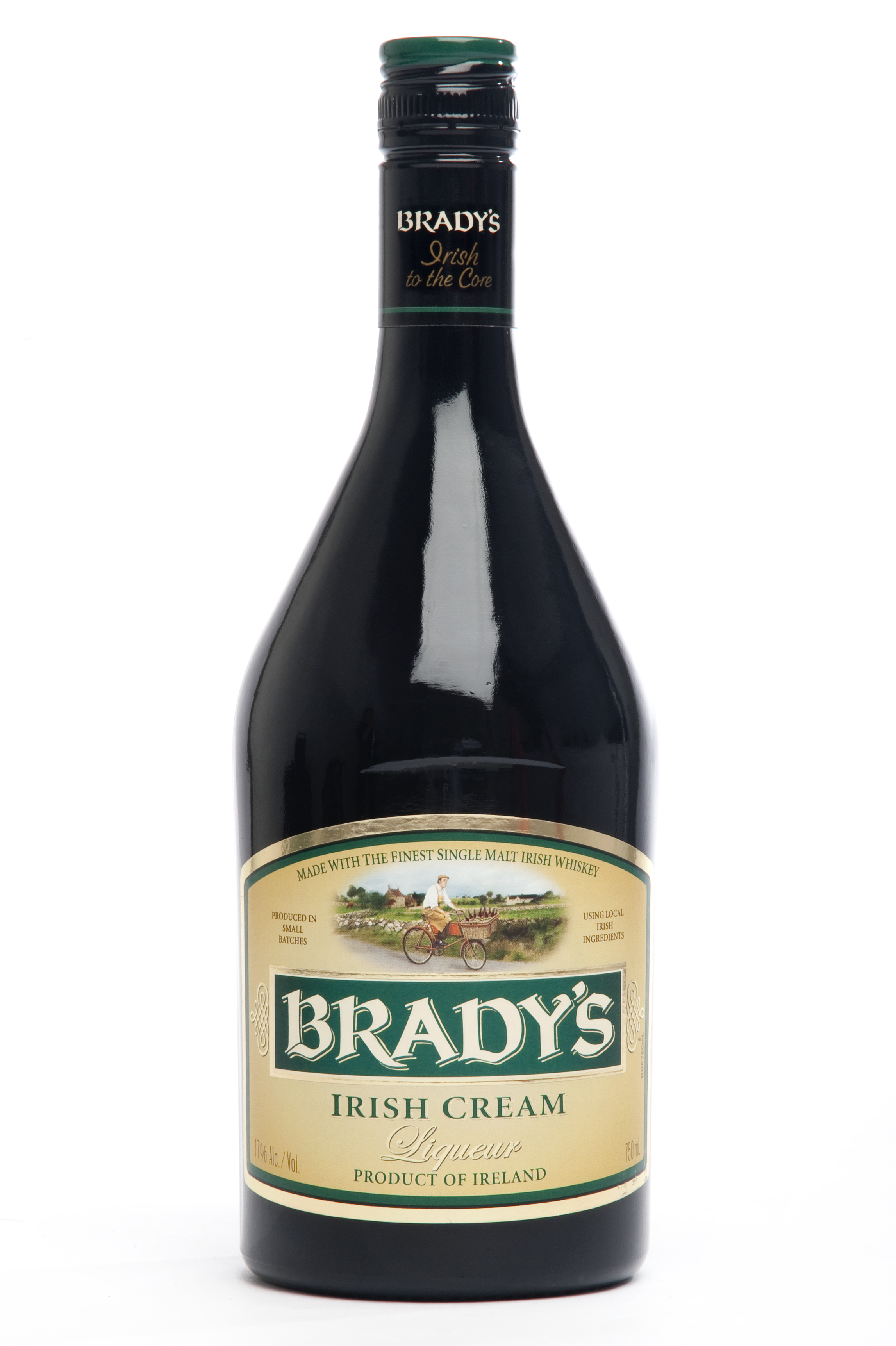 Bottle shot of Brady's Irish Cream Liqueur